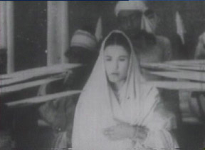 Screenshot of Joymati 1935.